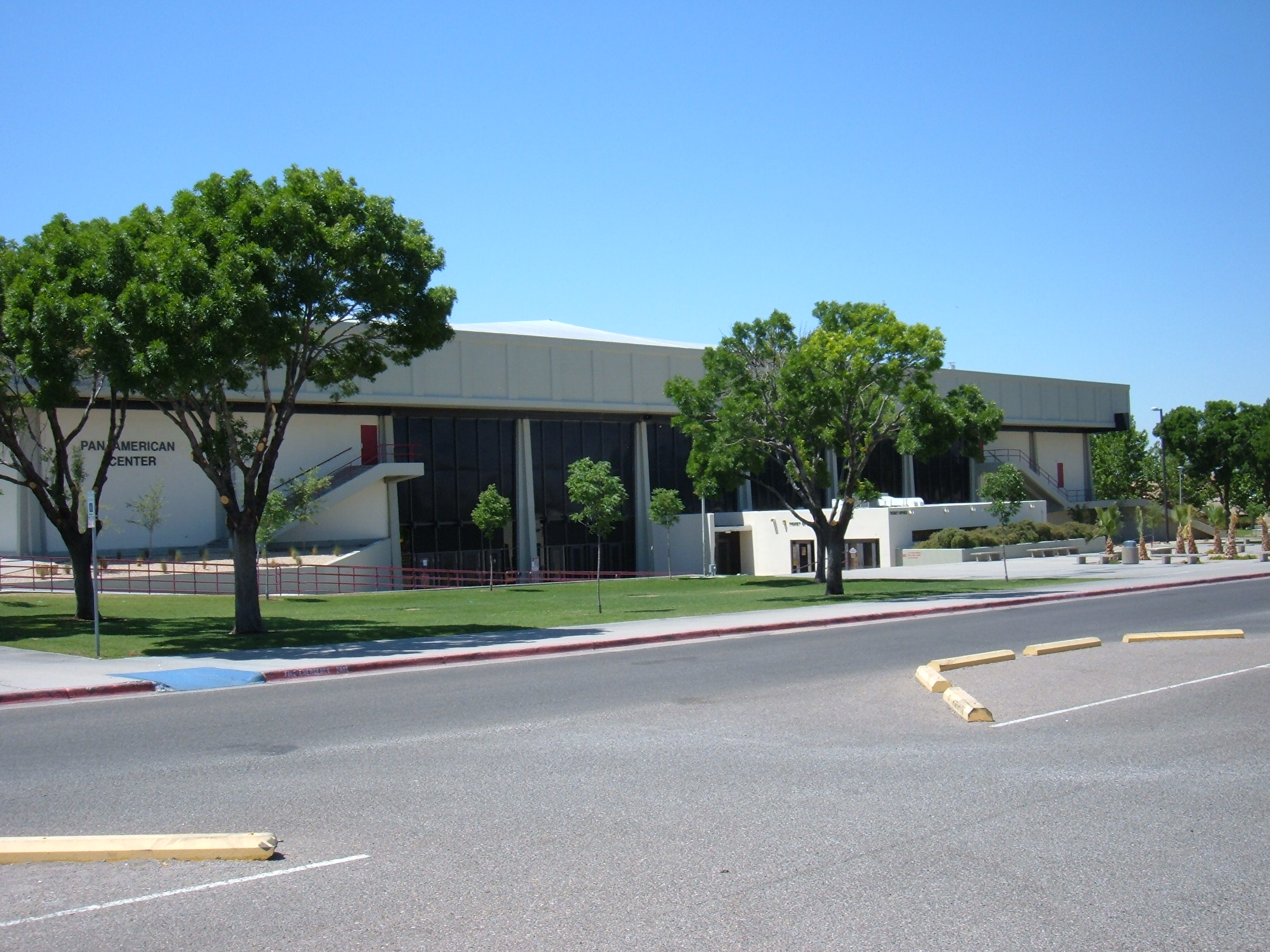 Pan American Center, a 13,000-seat arena at New Mexico State University at Las Cruces.